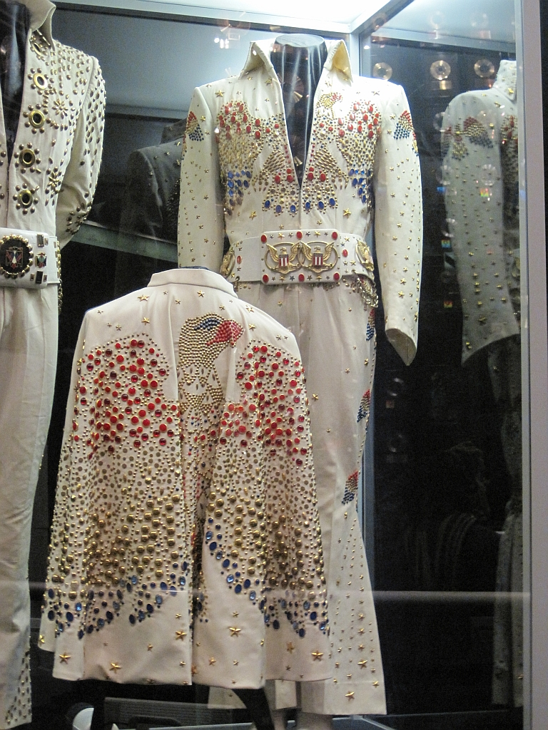 Graceland, Memphis, Tennessee. Aloha from Hawaii jumpsuit